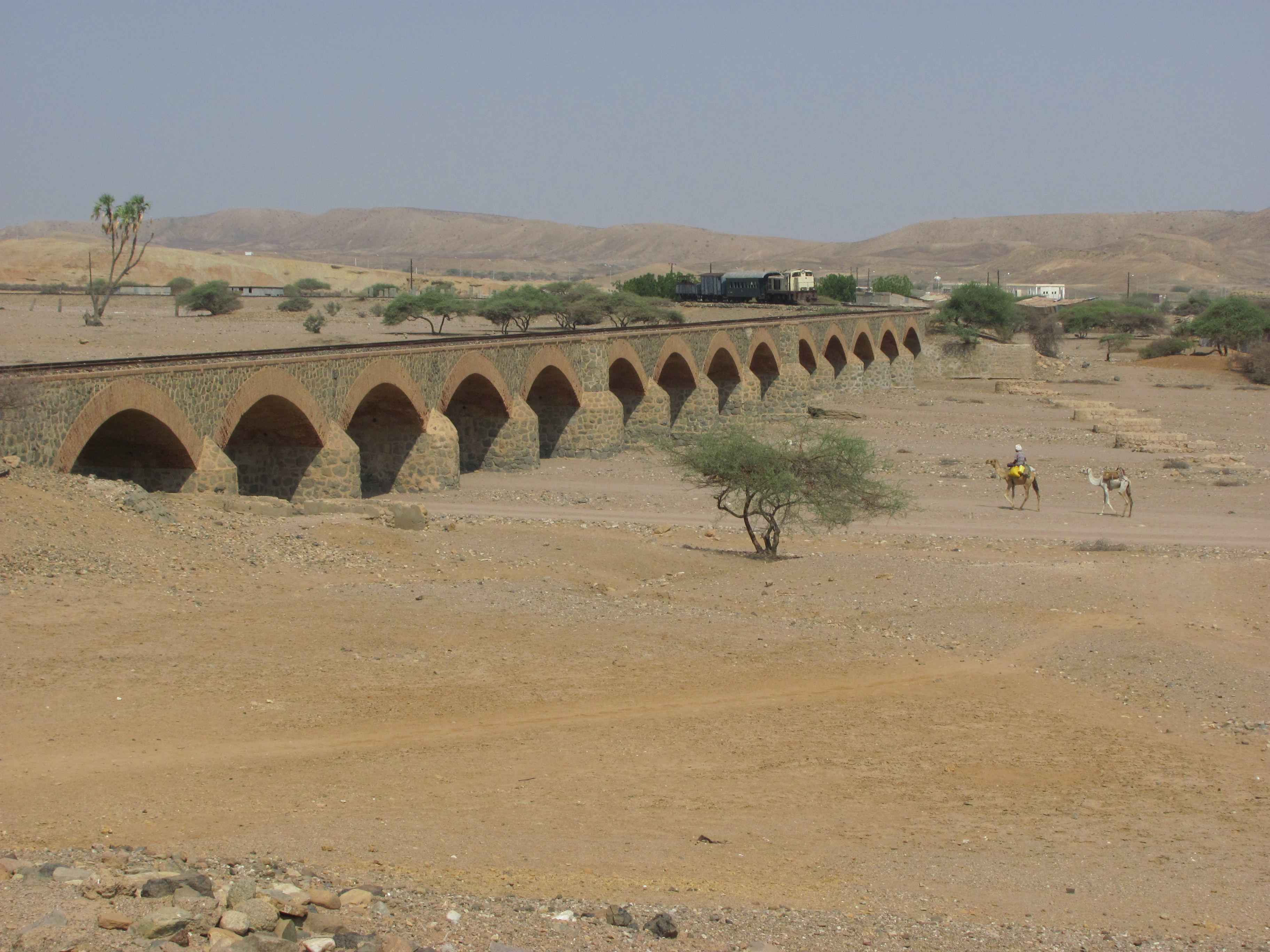 14-arch Railbridge close to Massawa, Eritrea. On the right hand side: Foundations of predecessing rail bridge